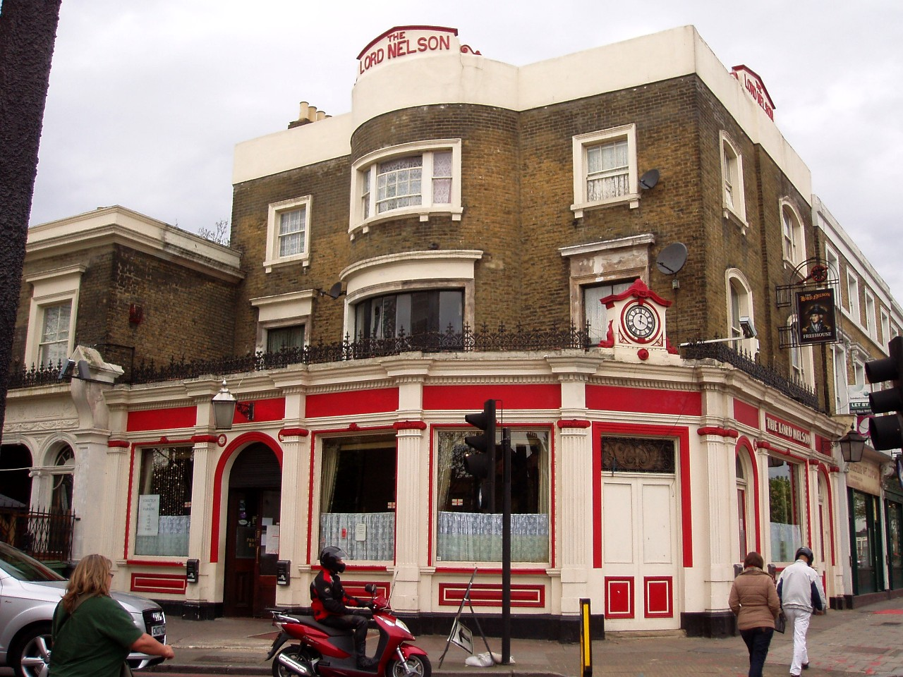 Pub on Old Kent Rd, one of the few remaining when I took this photo, and apparently now closed as of late-2011. Address: 386 Old Kent Road. Owner: London Borough of Southwark; Taylor Walker (former). Links: Pubs Galore Beer in the Evening CAMRA National Inventory Dead Pubs (history)